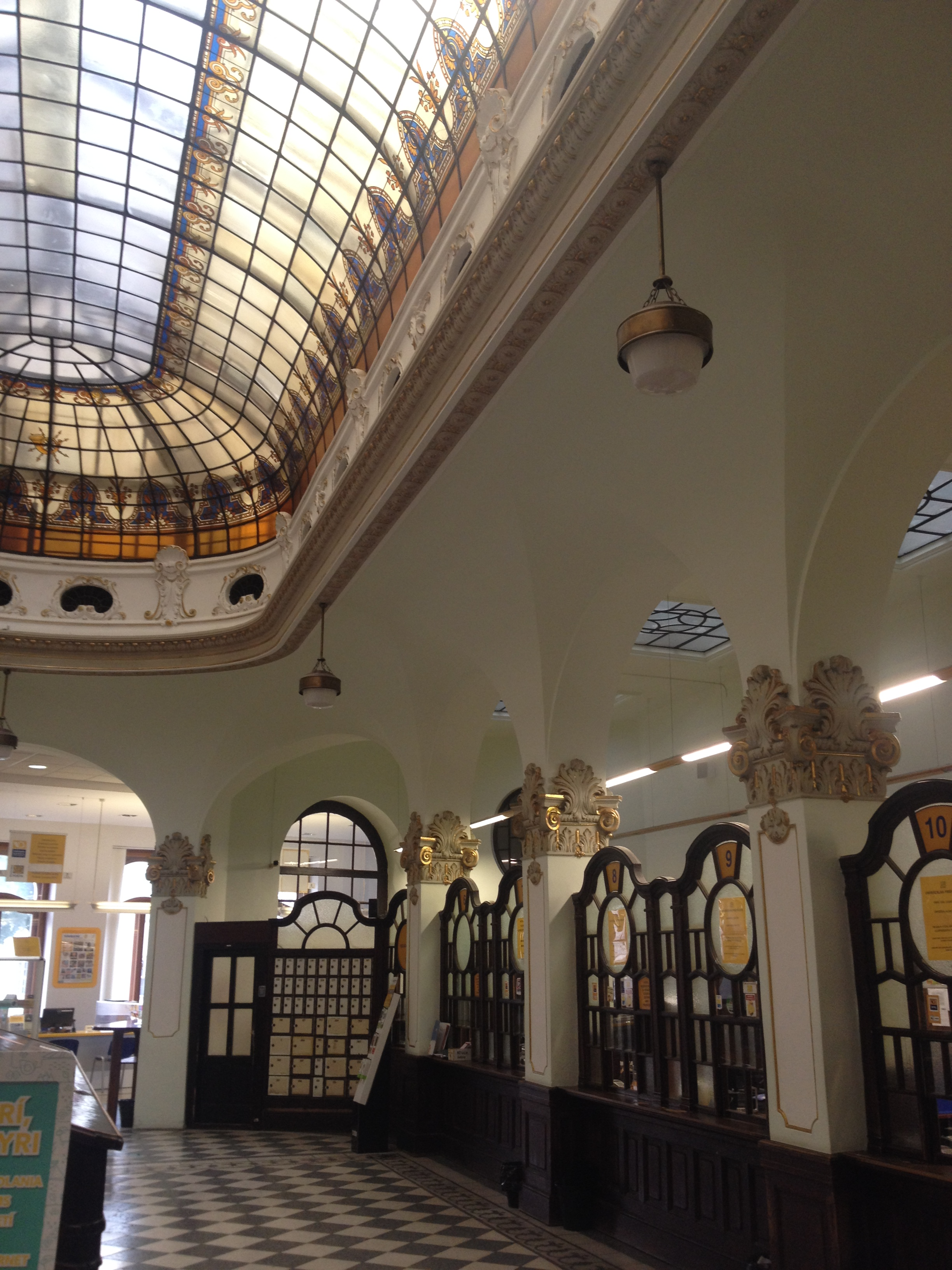 Bratislava, Main Post Office (Poštový palác), Interieur